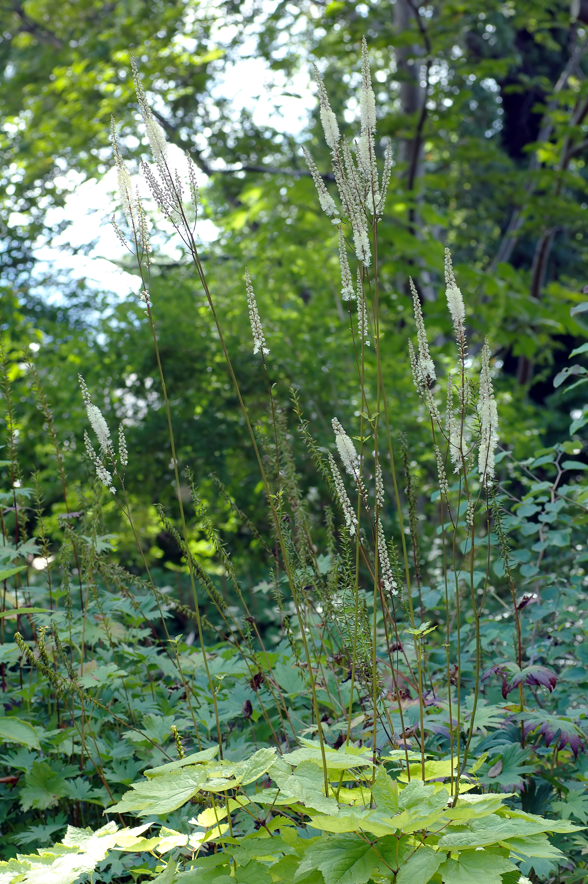 This image shows a Komarov's bugbane plant (Cimicifuga heracleifolia).